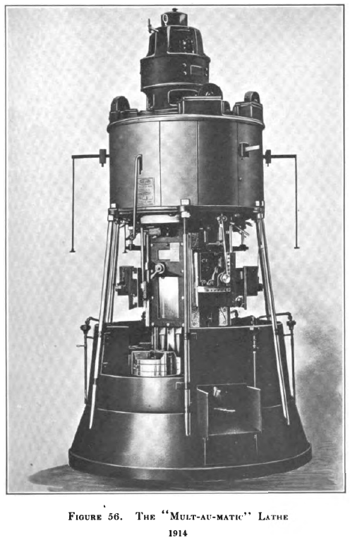 A Bullard Mult-Au-Matic of 1914. This machine tool is an automatic lathe of the vertical, multispindle type. It was used in the mass production of turned parts, with the automotive and defense industries being the biggest applications. Today's successors of such machine tools use CNC control (for example, rotary transfer machines).